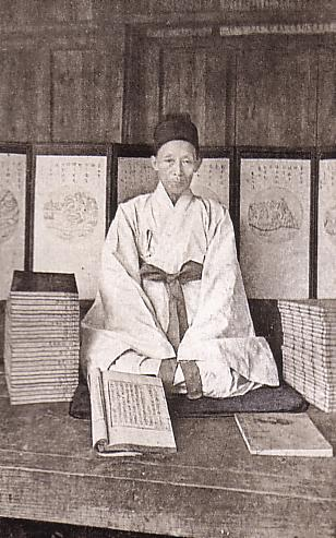 Korean Confucian scholar